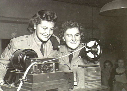 A CLASS IN SIGNALLING AND WIRELESS TELEGRAPHY AT THE MELBOURNE TECHNICAL COLLEGE. GIRLS INSPECT A MACHINE FOR MORSE PRACTICE.